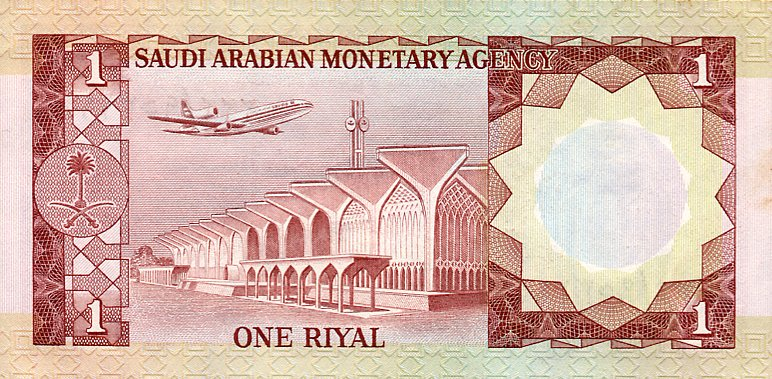 1977 Saudi Riyal, obverse